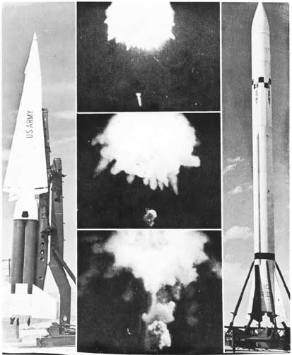 On 3 June 1960 a Corporal missile was attacked by a Nike Hercules in a test at White Sands. This was the first successful test of one missile attacking another, although the Hawk-vs-Honest John test previously was almost identical in nature in spite of Honest John being a "rocket".